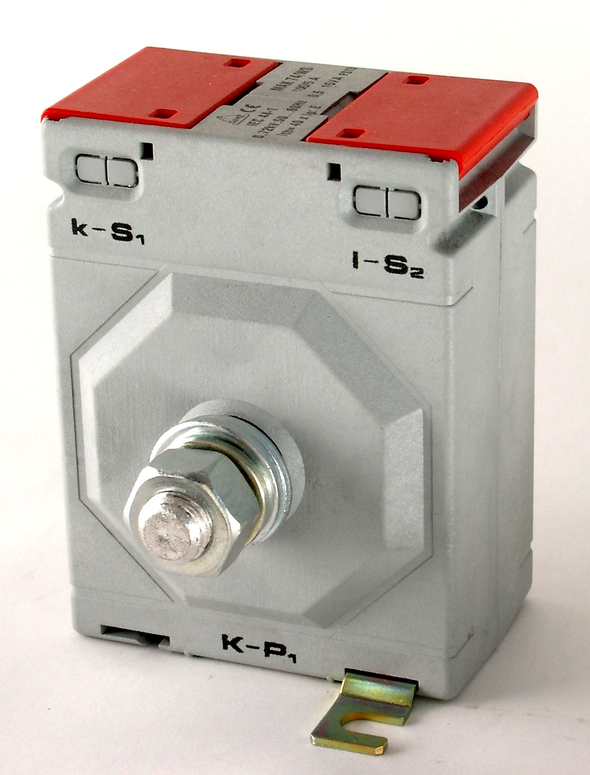 Current transformer